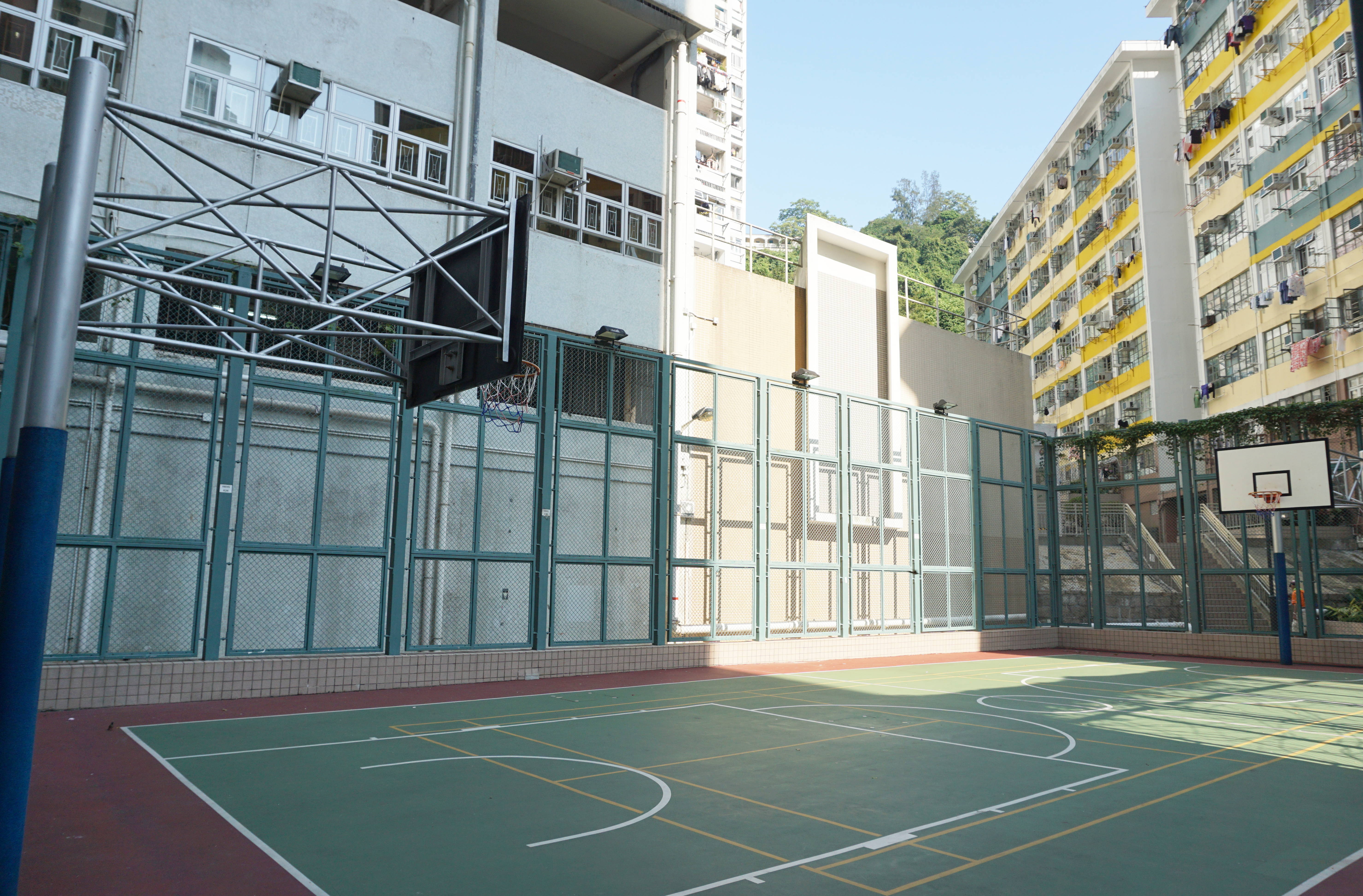 Ming Wah Dai Ha in Shau Kei Wan, Hong Kong.